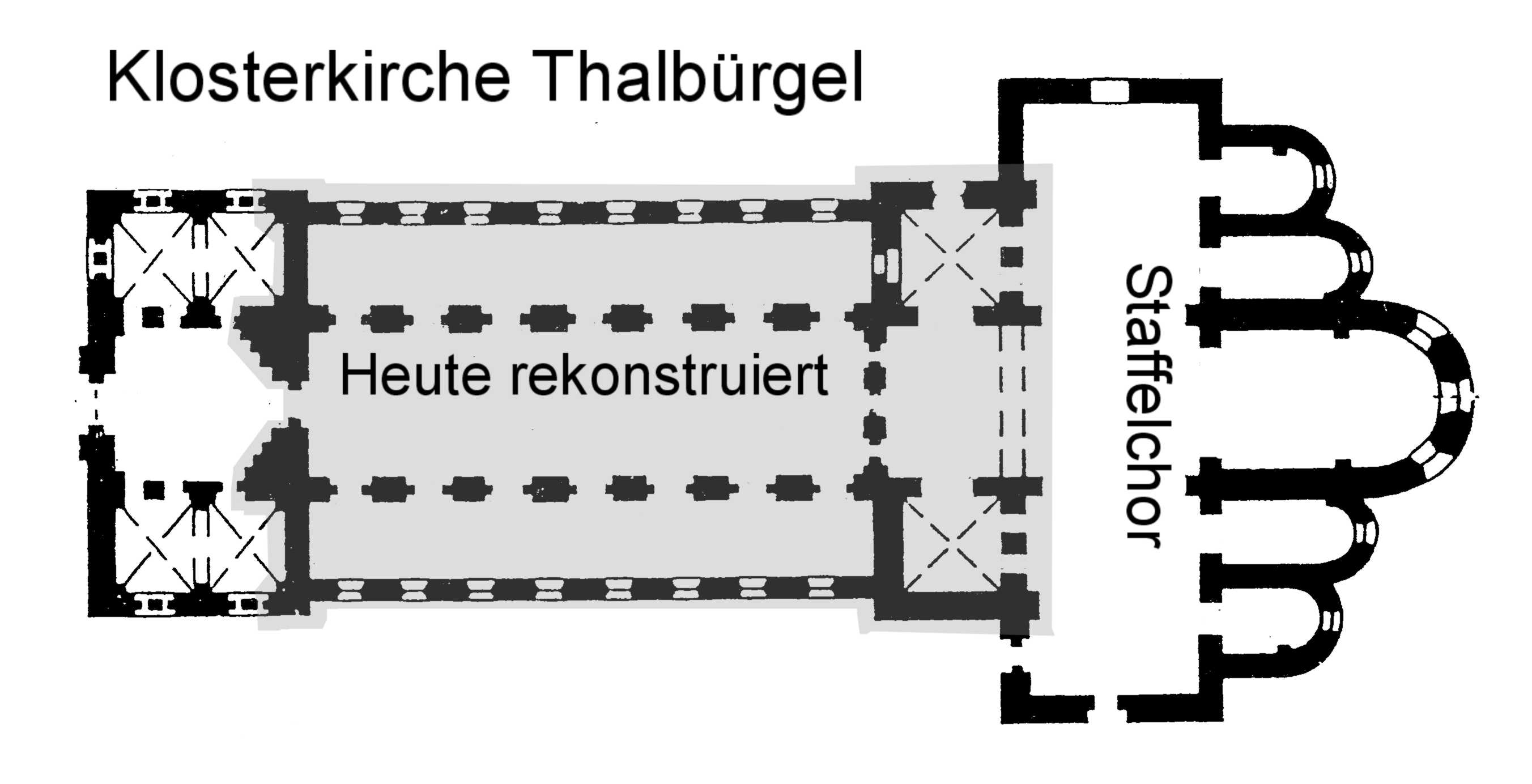 Plan of the monastry´s church in Thalbürgel